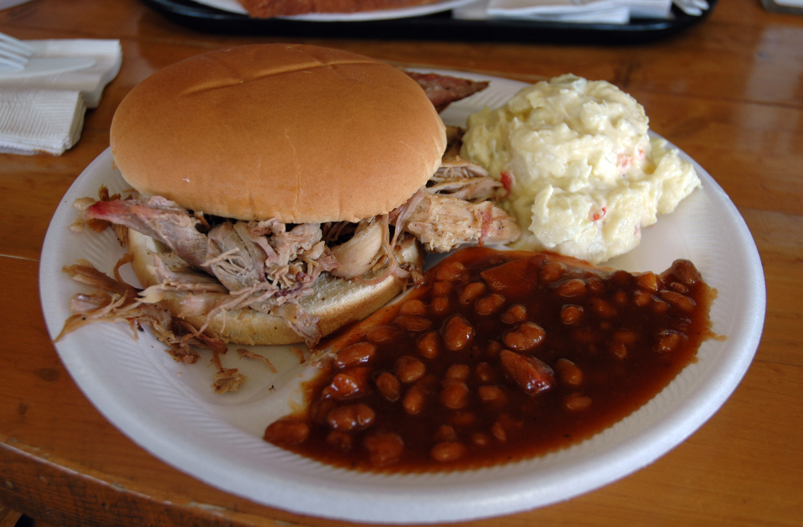 The best barbecue in Springfield, Missouri. Read my review here.